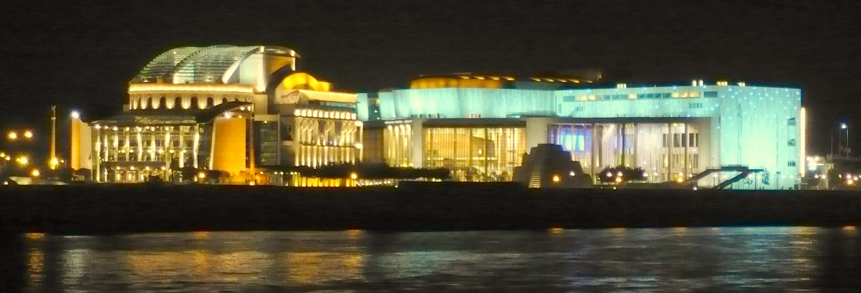 National Theatre and Palace of Arts in Budapest